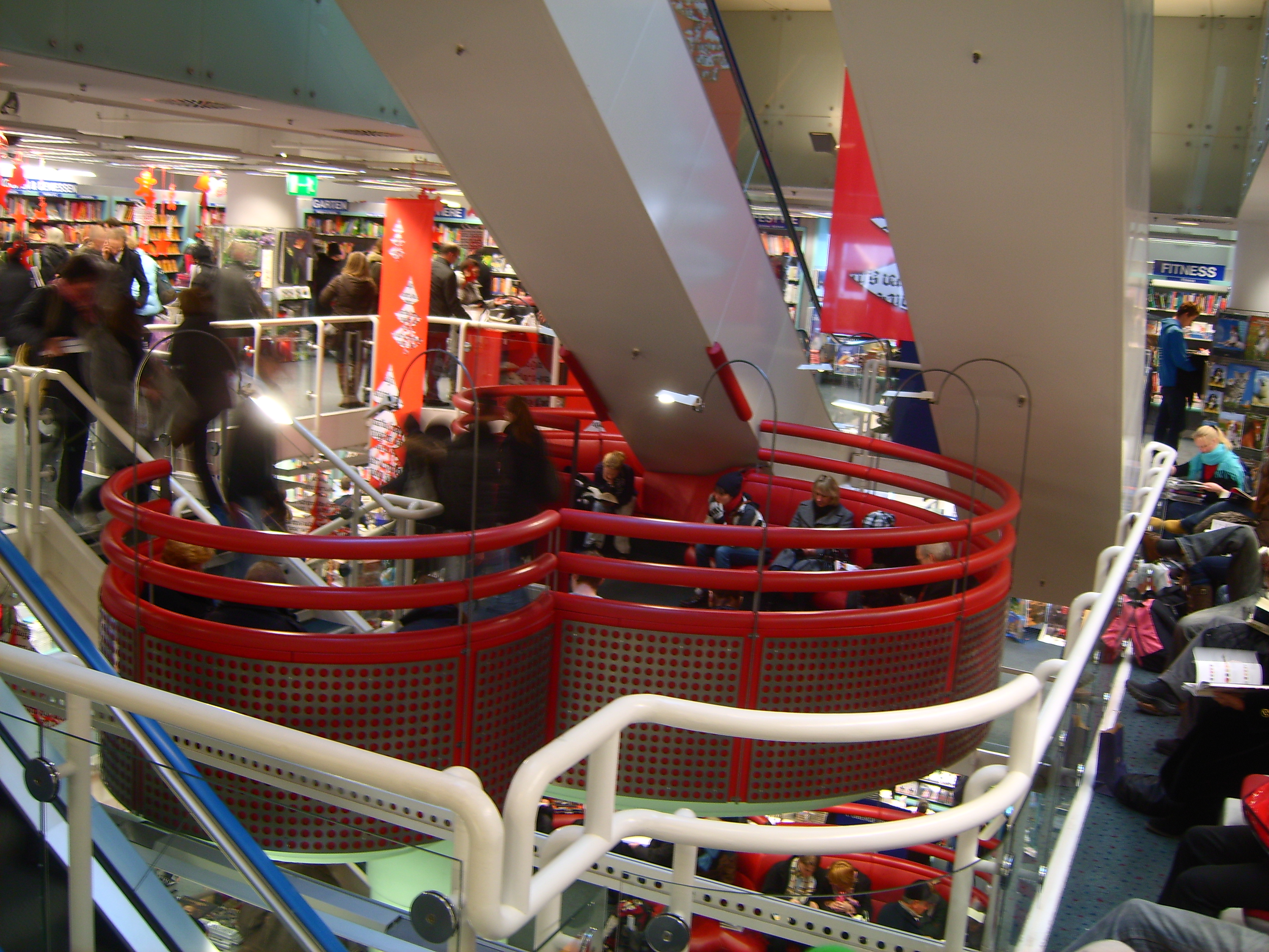 Look down onto one of the shop's reading areas - "Leseinseln" i.e. reading islands branching off from the main staircase. The design was innovative in 1979 with its offer to take a seat and read in books without being forced to buy them